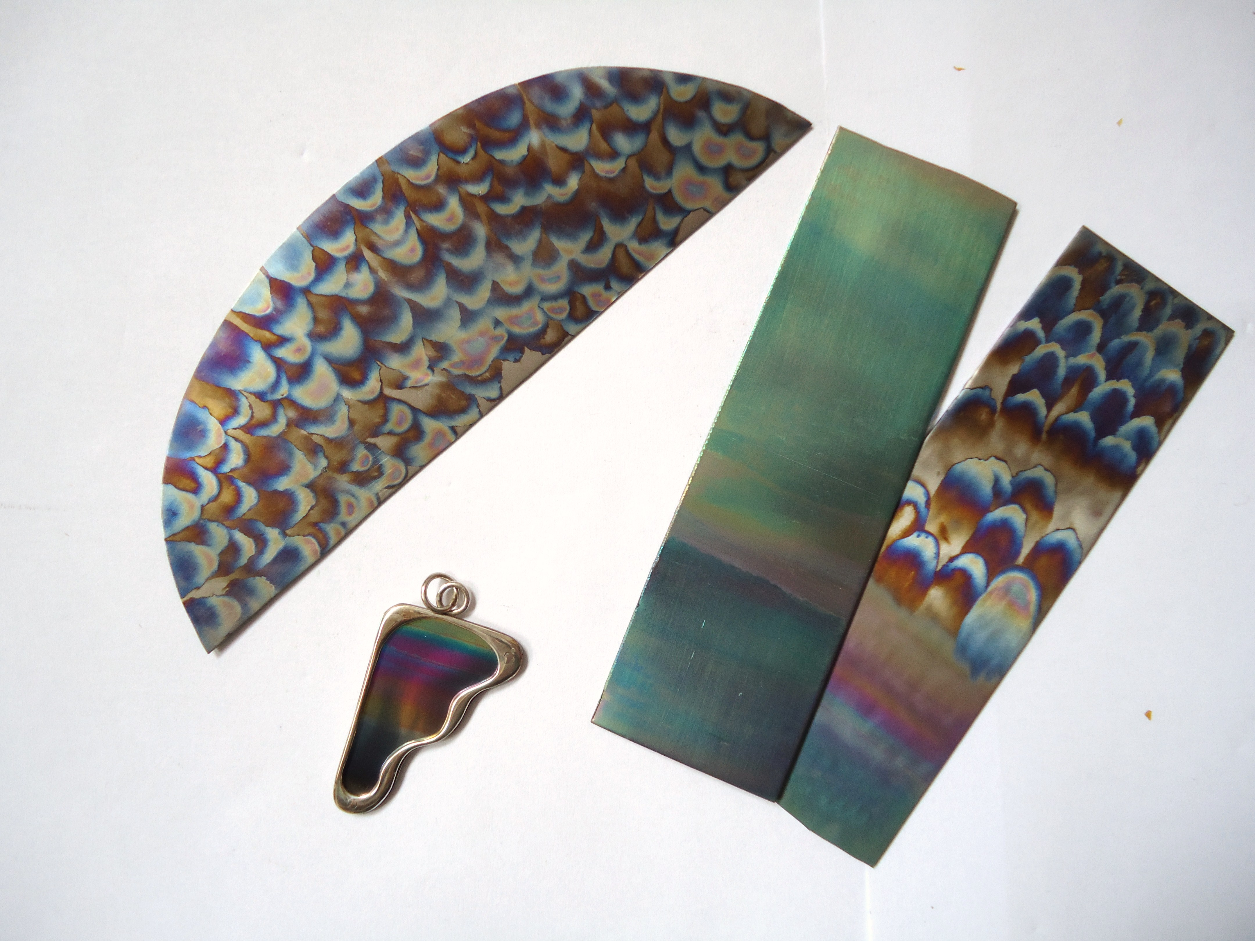 Anodized (coloured) titanium. Silver and titanium pendant. Made by Mauro Cateb, Brazilian jeweler.